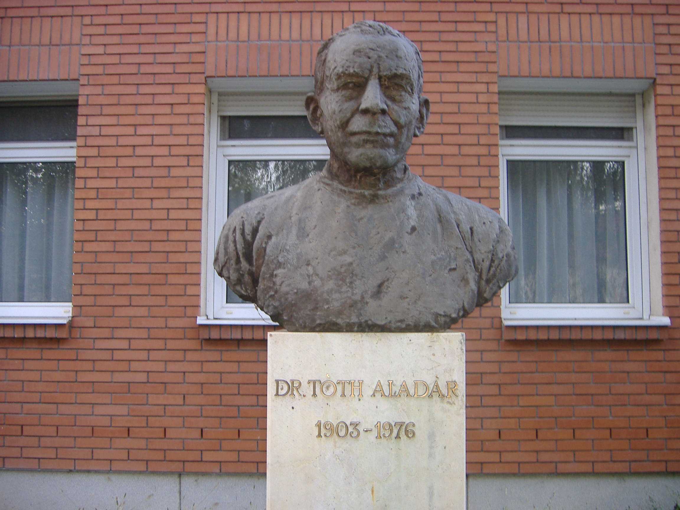 Statue of Aladár Tóth, head physician in front of the hospital in Makó, Hungary. Sculptor: Jenő Ferenc Kiss (*1959) in 1996